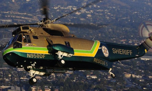 Sikorsky S-61 (Ex-US Navy H-3 Sea King) operated by the Los Angeles County Sheriff's Department.